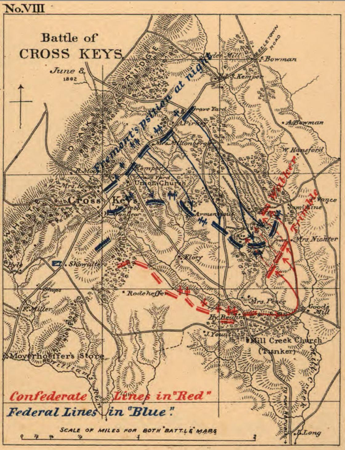 Historical map of the Battle of Cross Keys by Jedediah Hotchkiss